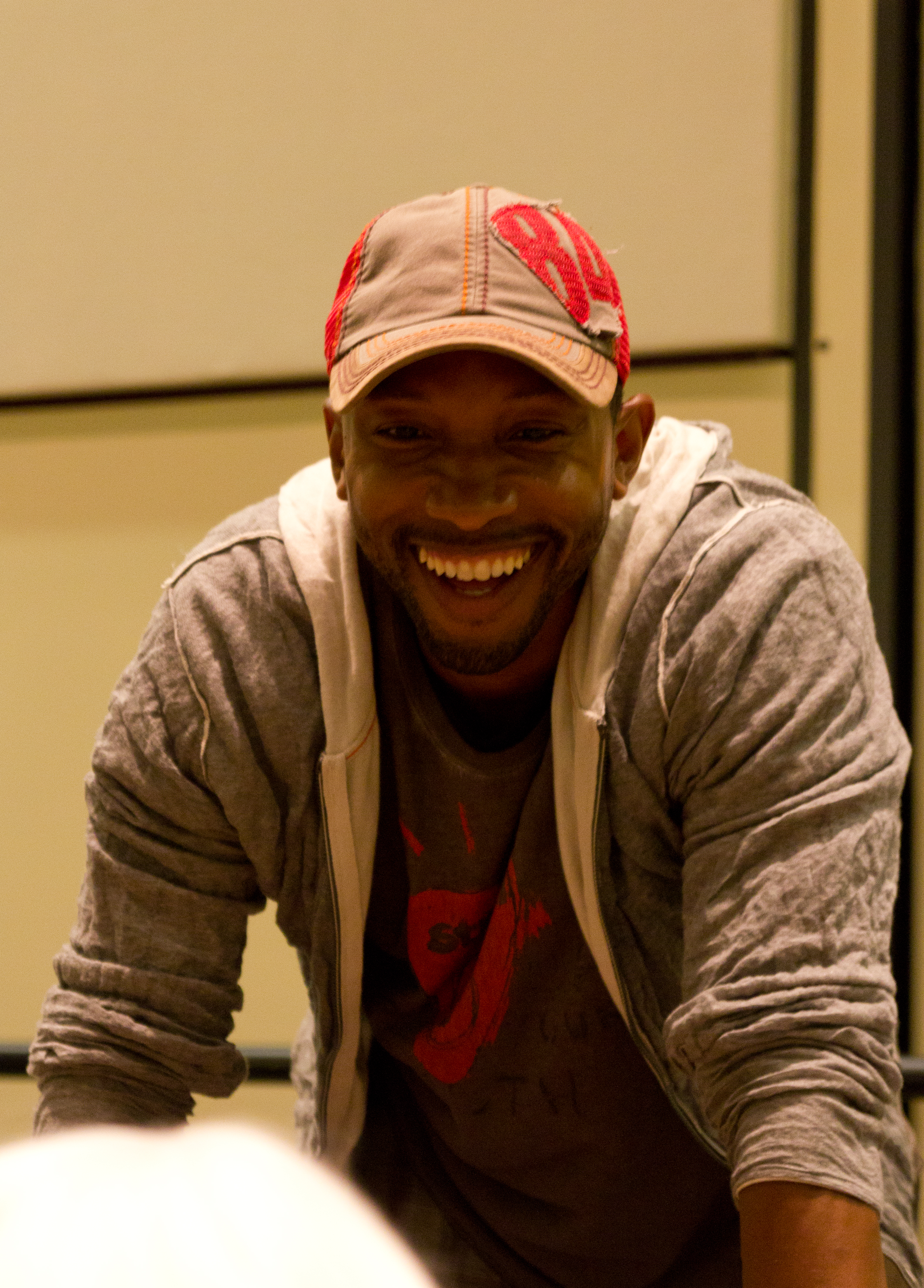 Actor K.C. Collins at a Fan Expo session on the show Lost Girl